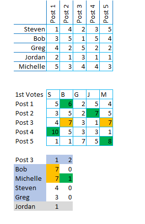 First Part: Sample ballot, someone can vote for each candidate in order for each post. Second Part: Vote Count for all 22 ballots. Bob wins post 1, Jordan wins post 2, Steven wins post 4 and Michelle wins post 5. Post 3 becomes an instant runoff, with the person who voted number 1 for Jordan voting 2 for Michelle, meaning she wins.